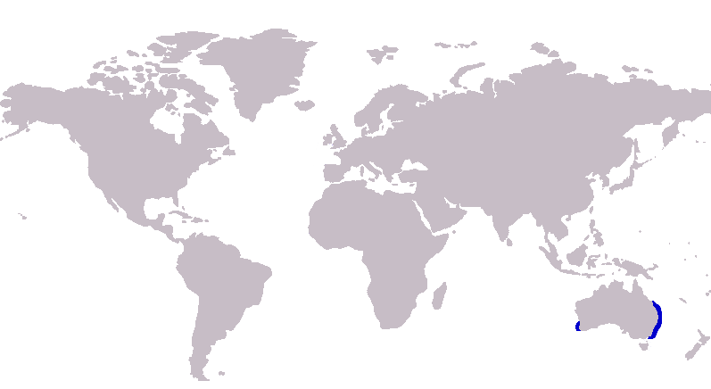 Distribution of stout whiting, Sillago robusta using map based on GDFL image